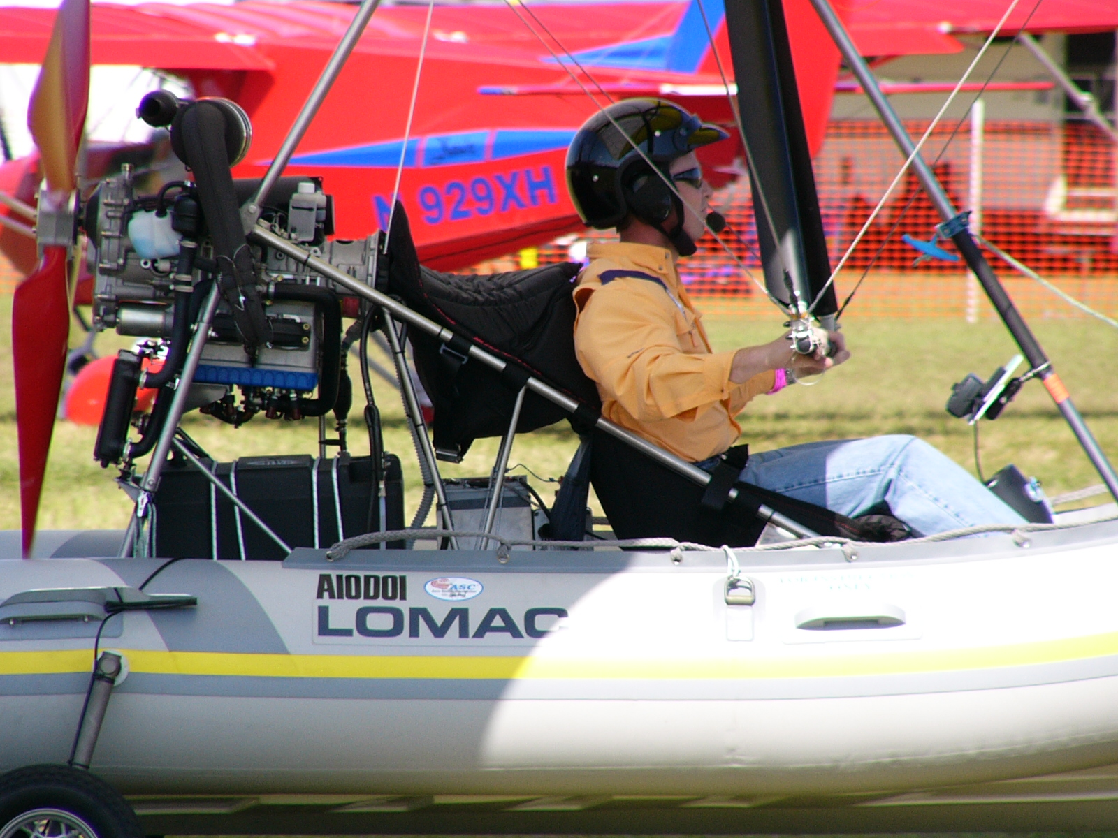 Polaris AM-FIB Flying Inflatable Boat seen at Sun 'n Fun 2004